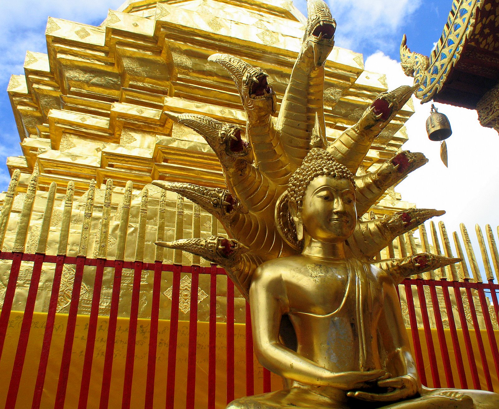 A statue of the Buddha sheltered by the naga Mucalinda at Wat Phrathat Doi Suthep, Chiang Mai. The golden chedi of the temple forms the backdrop.